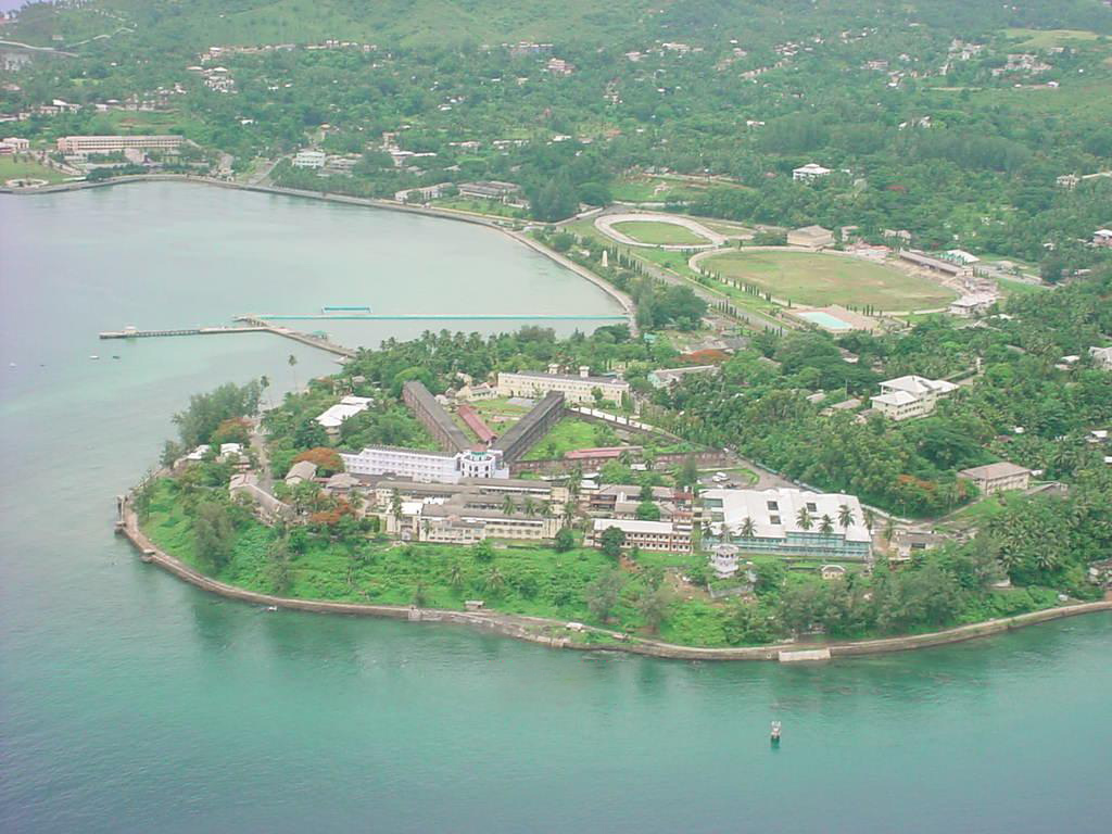 This is a rare aerial picture of the cellular jail at Port Blair in the Andaman islands